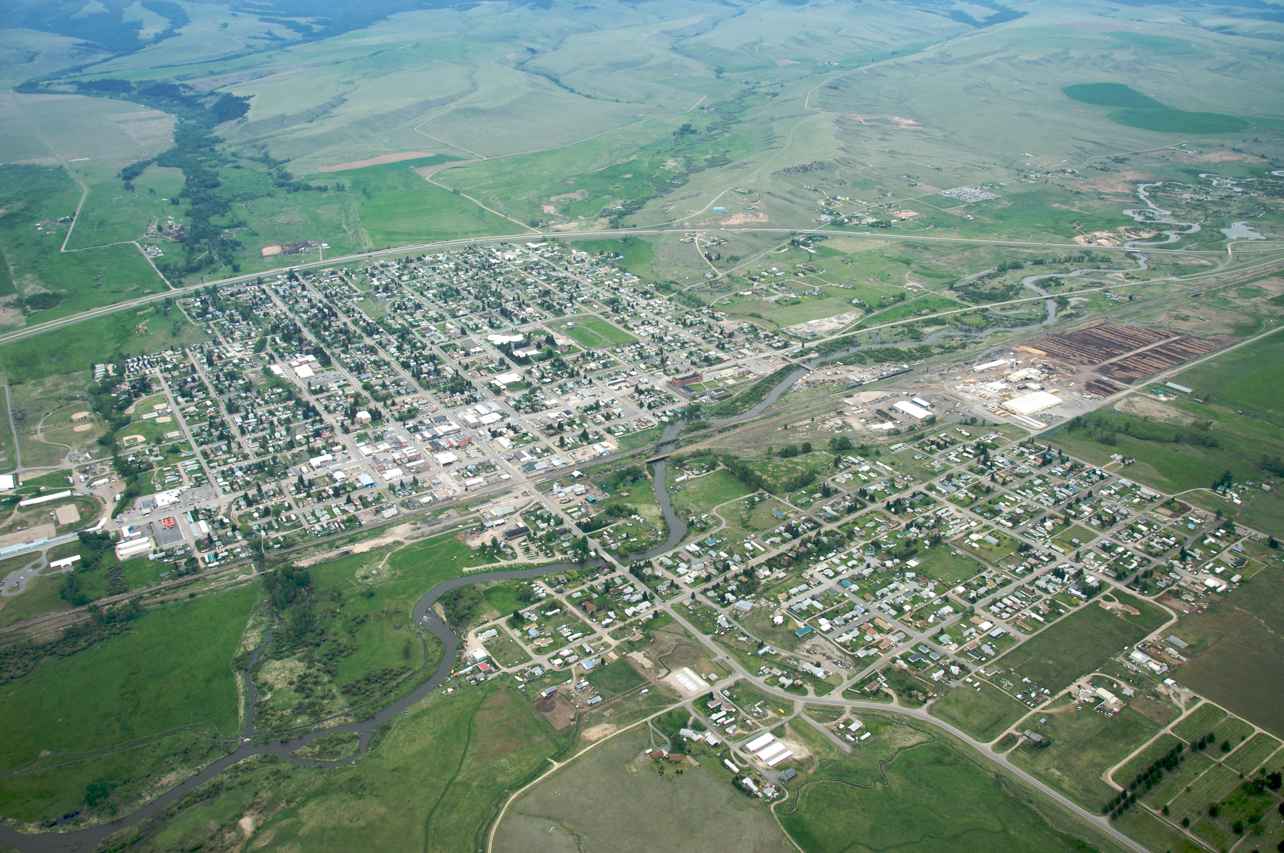 Aerial view of Deer Lodge, Montana, USA.